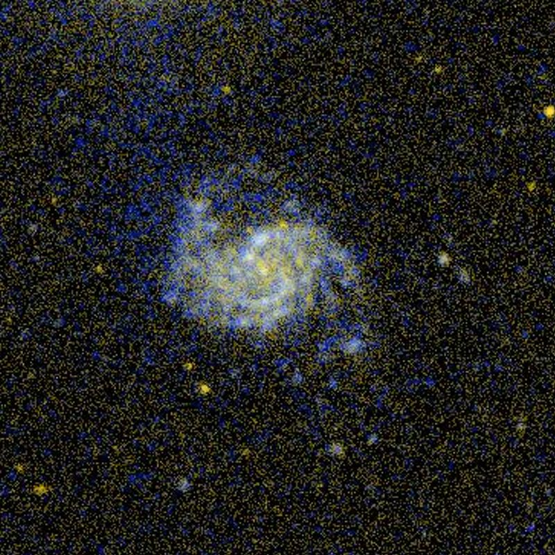 NGC 7412 galaxy by GALEX